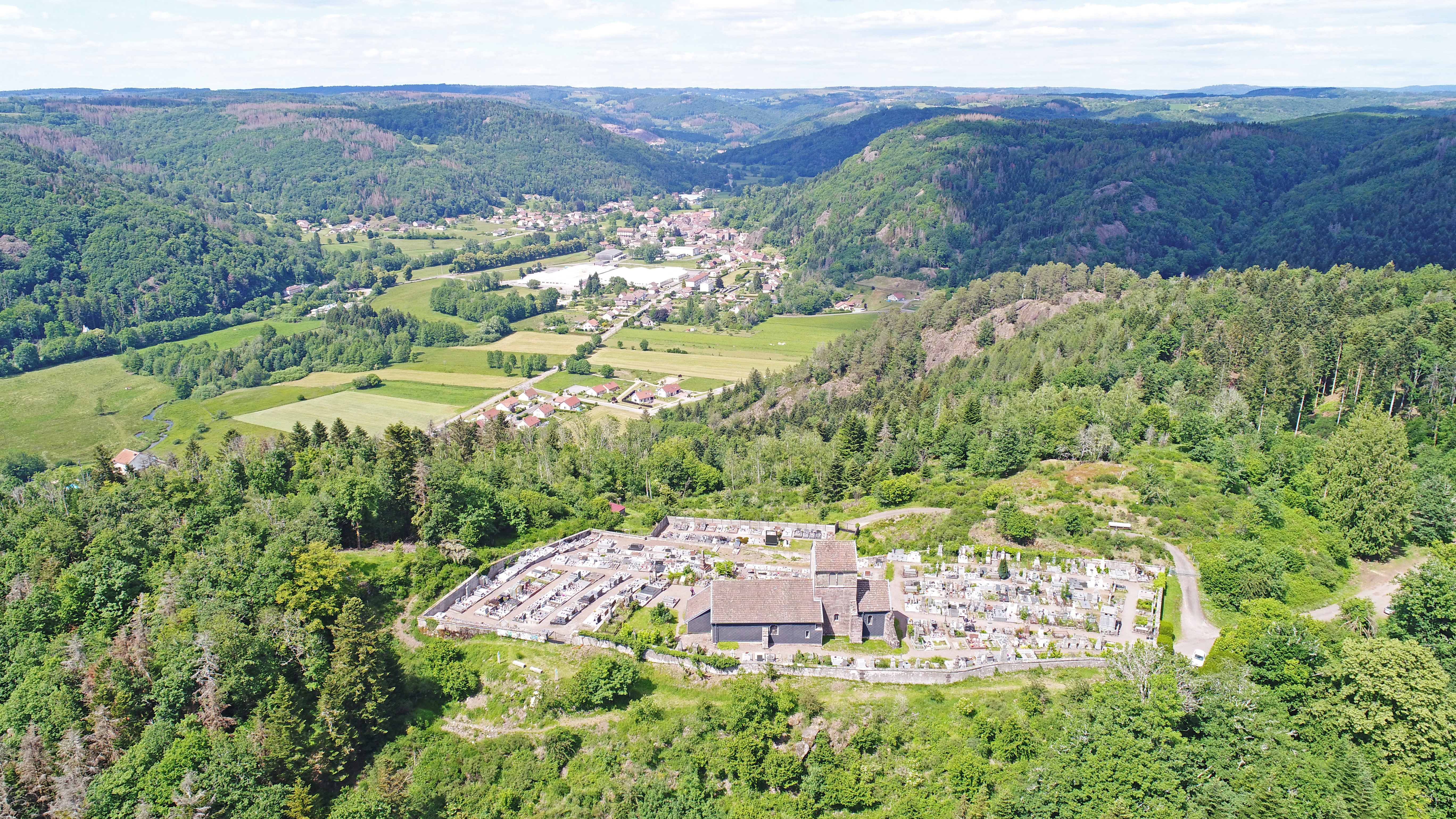 Montagne Saint-Martin et le bourge de Faucogney-et-la-Mer en arrière-plan.